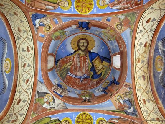 Fresco in St. George Church in Velmej, Macedonia